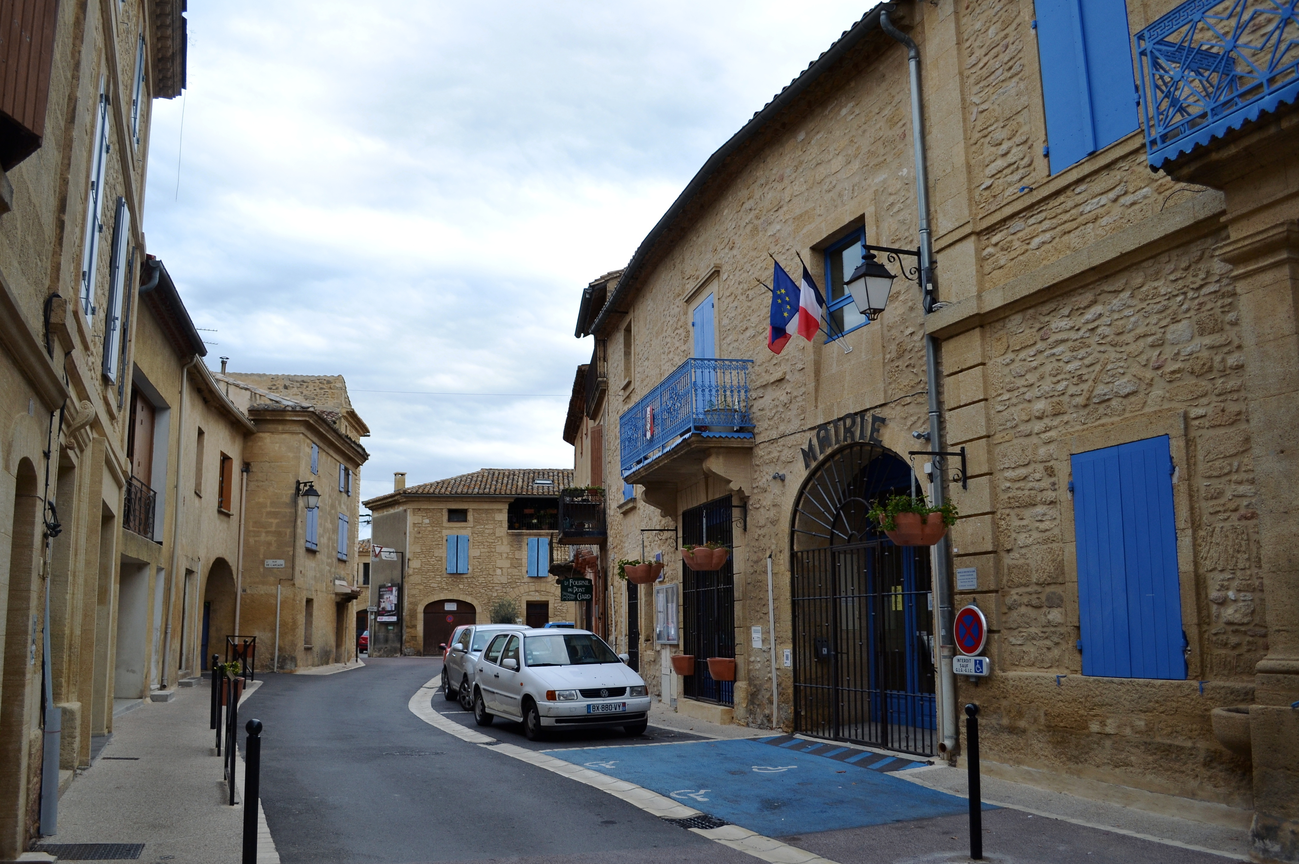 Town hall in Vers-Pont-du-Gard, Gard department, Languedoc-Roussillon region, France.